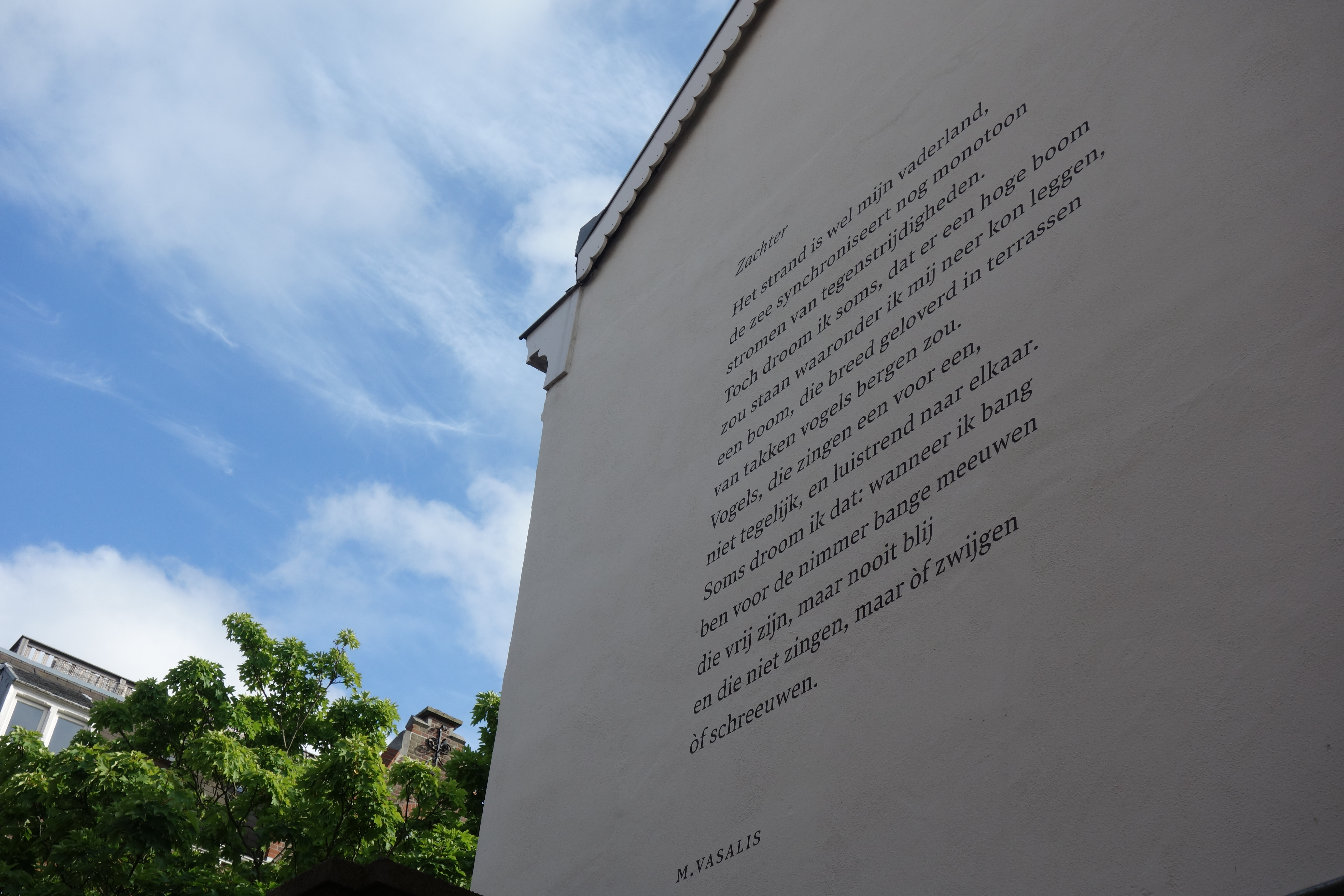 Wall poem Zachter by Dutch poet M. Vasalis, on a wall at Kerkstraat 15, The Hague (the Netherlands). Design: letter Lava, by Peter Bil'ak